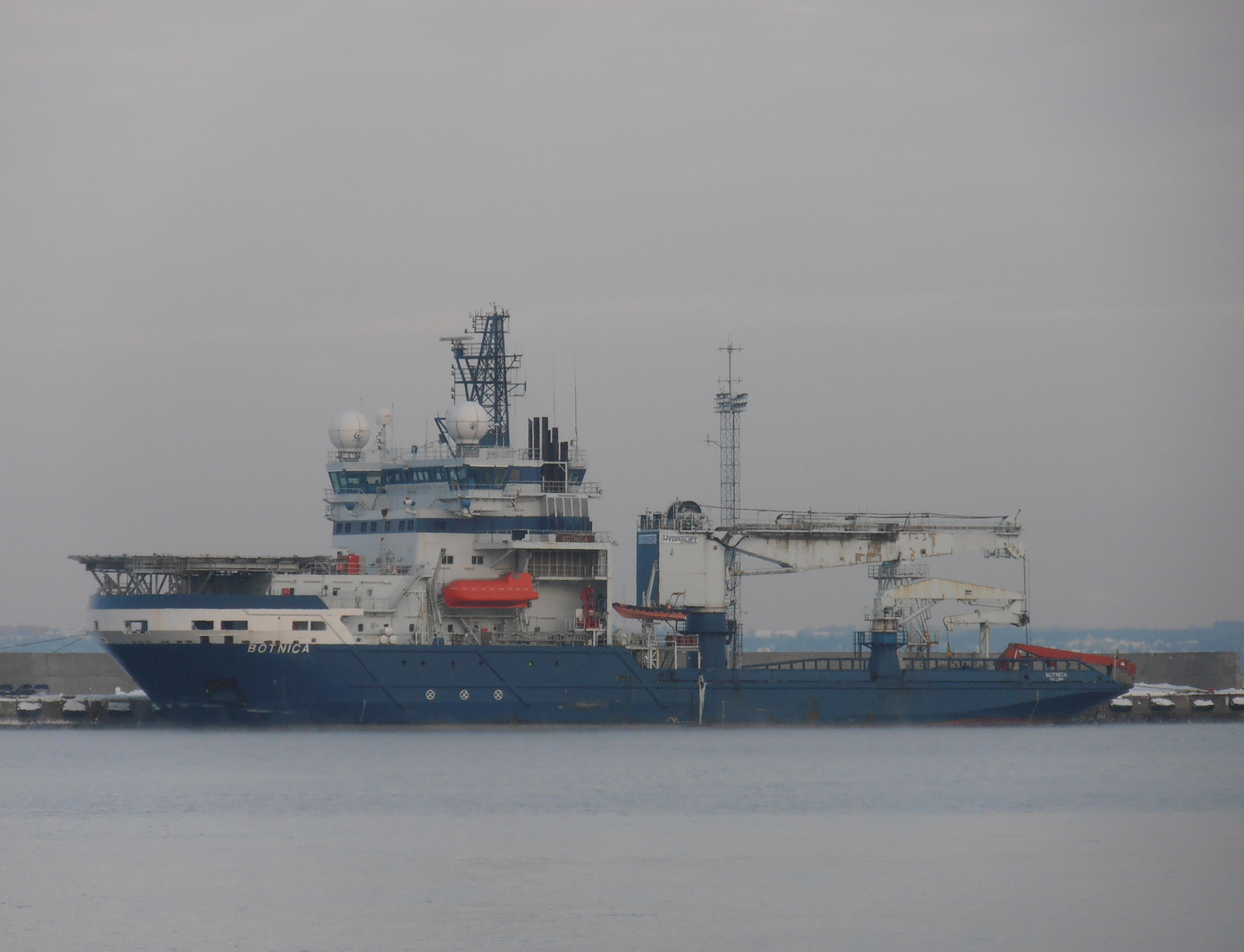 Botnica at quay 17 in Tallinn 22 December 2012